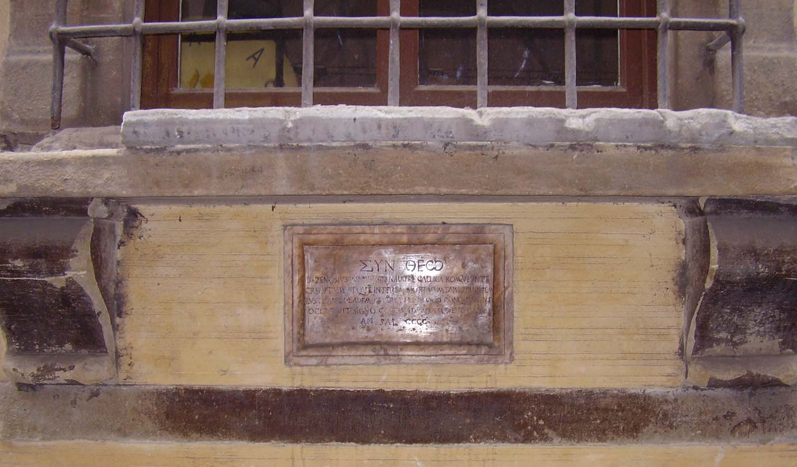 Visacci Palace, plate remembering a miracle by San Zanobi bishop, in Florence Italy